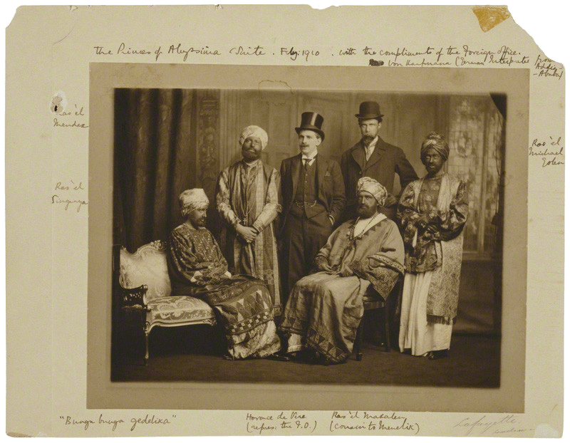 Photograph taken at the Lafayette studio. le, Anthony Buxton (seated), Adrian Stephen, Guy Ridley [1].